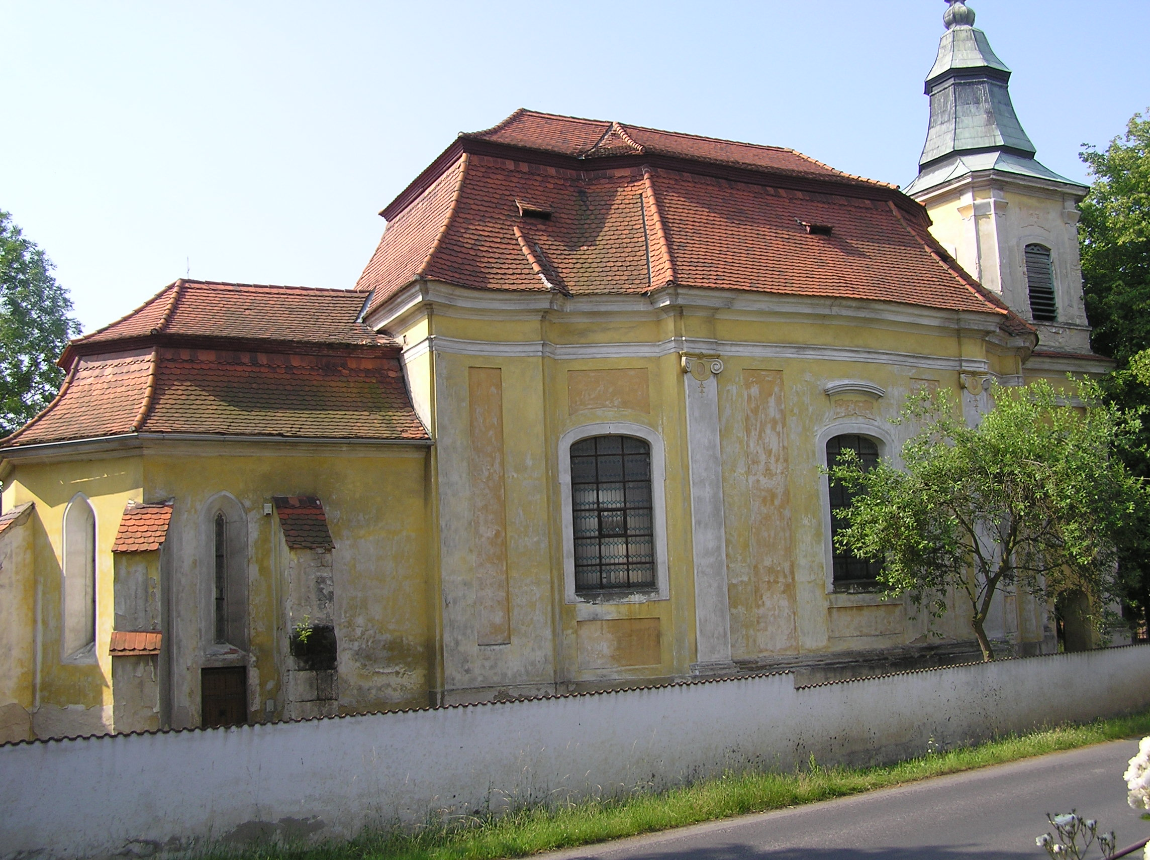 Church of St. Wenceslas in Černochov